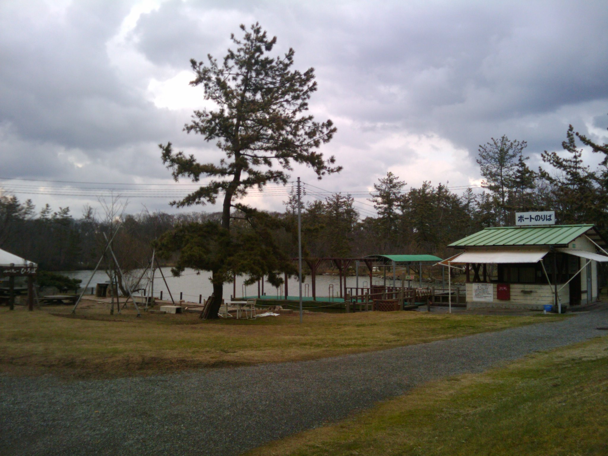 Kenminkaihin Park (Kanazawa, Ishikawa, Japan)